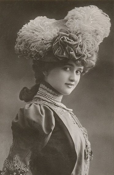 A still of French singer Gaby Desyls circa 1910s